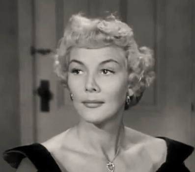 Veda Ann Borg in the TV series Stories of the Century, episode Kate Bender - cropped screenshot